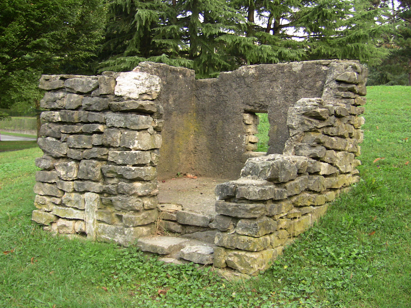 An old house in the area of Planoise, in Besançon (Doubs, France)